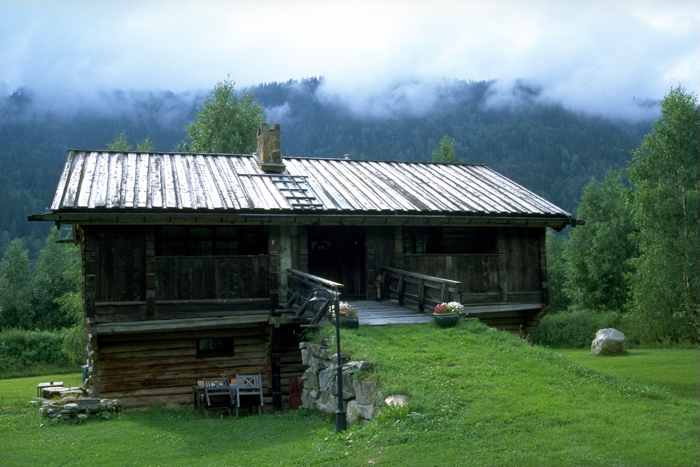 Guesthouse in Numedal, Norway Photo was taken using the following technique: Film: Fuji Velvia Lens: 2.8/28 Filter: Body: Minolta 7 Support: Image with Information in English Bild mit Informationen auf Deutsch